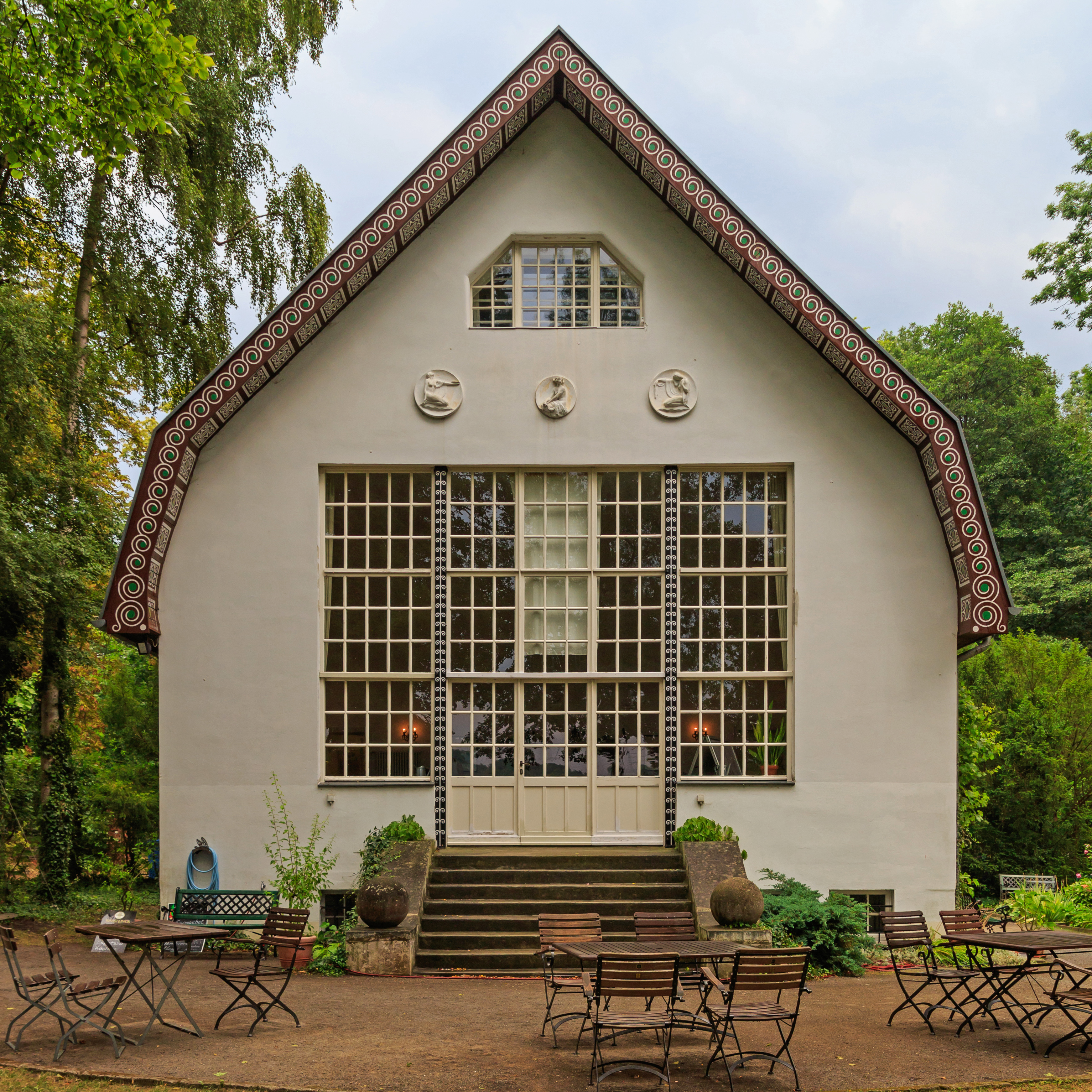 The garden facade of the Brecht/Weigel Museum in Buckow (Märkische Schweiz), Brandenburg, Germany